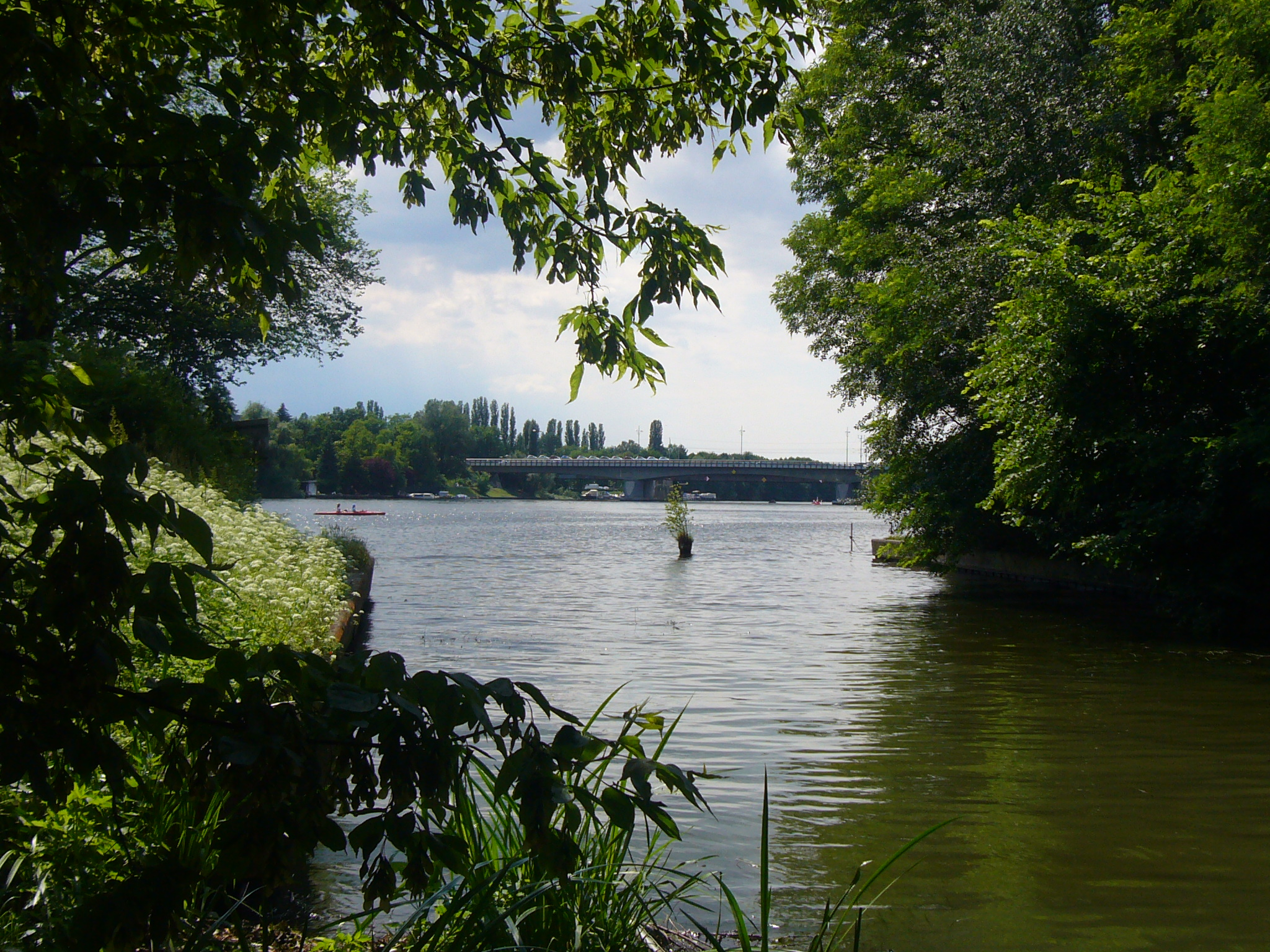 Mouth of the river Wuhle joining the river Spree in Berlin, Köpenick, in the background the Wilhelm Spindler Bridge crossing the Spree